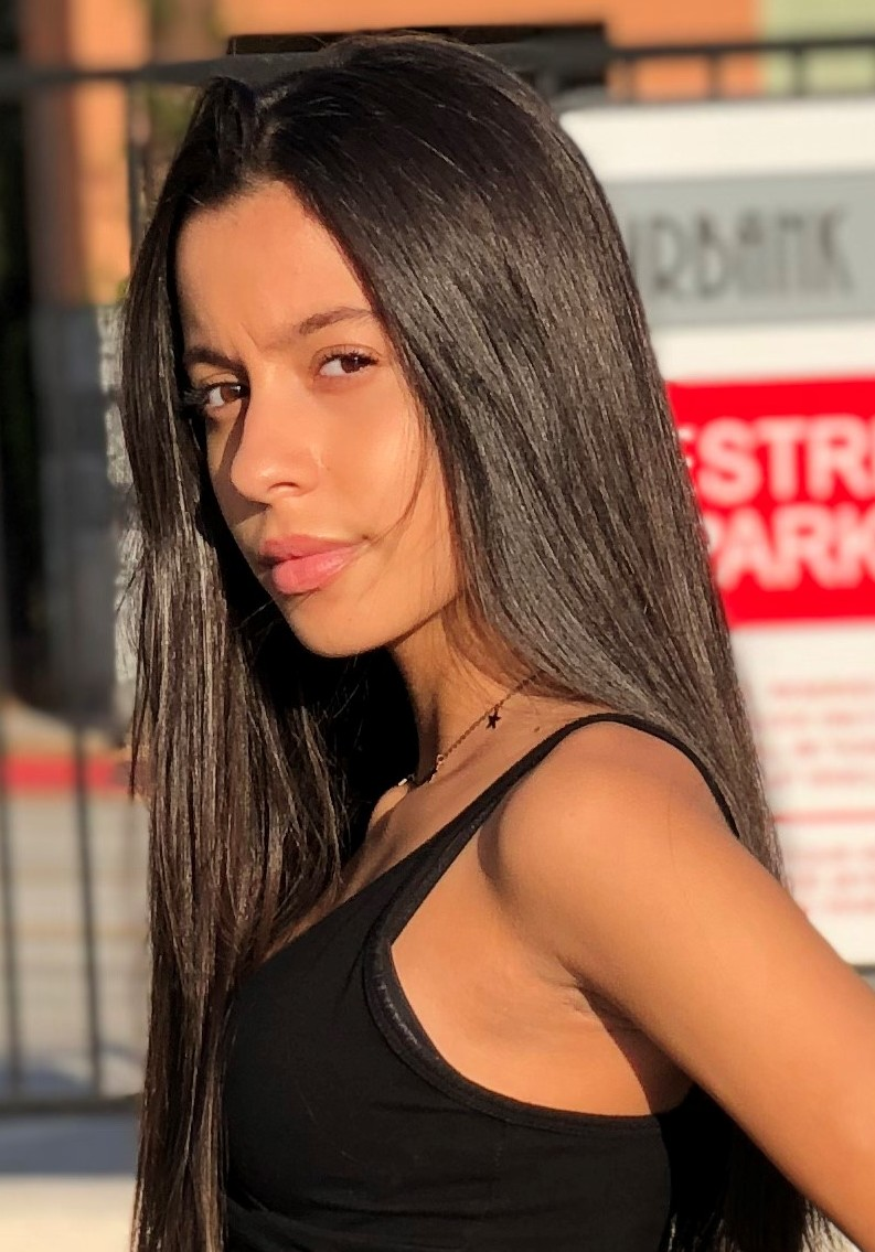 Picture of Izabella Alvarez I took in 2019